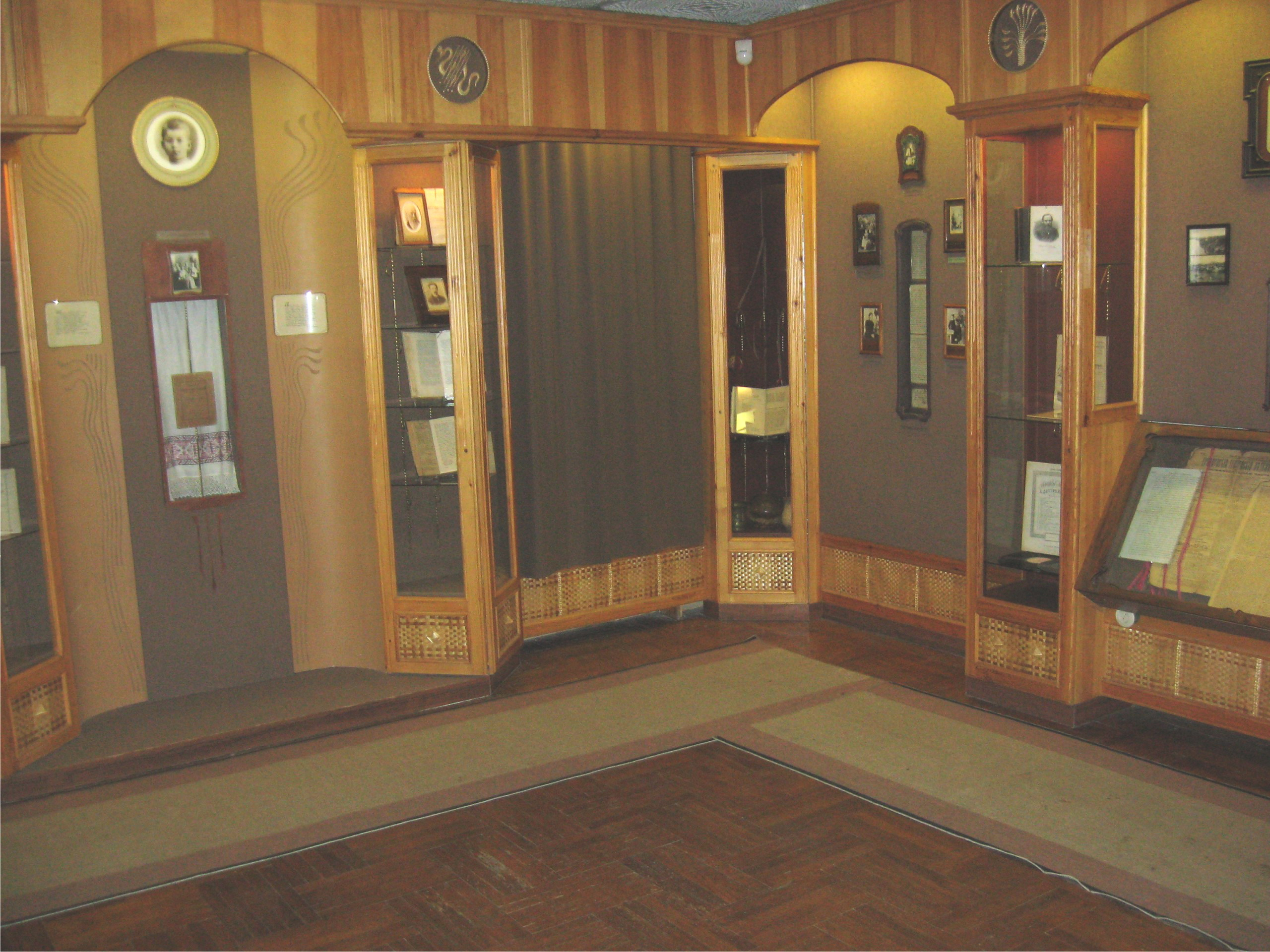 The First hall of the Bahdanovič museum